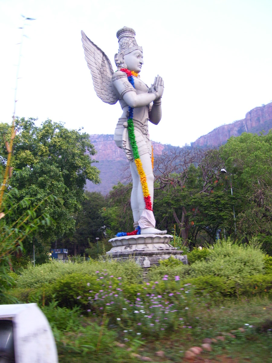 Statue of Garudalwar - the eagle vehicle of Lord Venkateswara at the foothills of Tirumala.